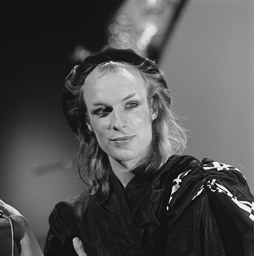 Brian Eno in AVRO's TopPop (Dutch television show) in 1974